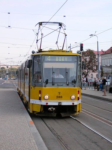 Tatra KT8D5 tram in Pilsen.